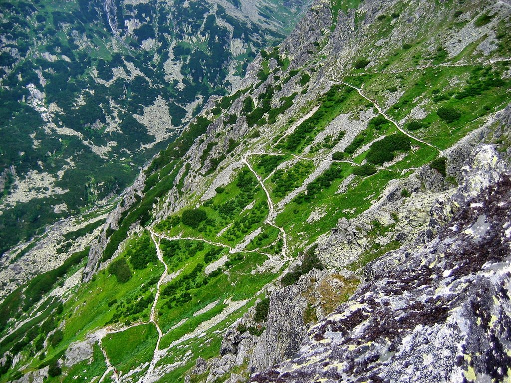 Traverse Tatra artery